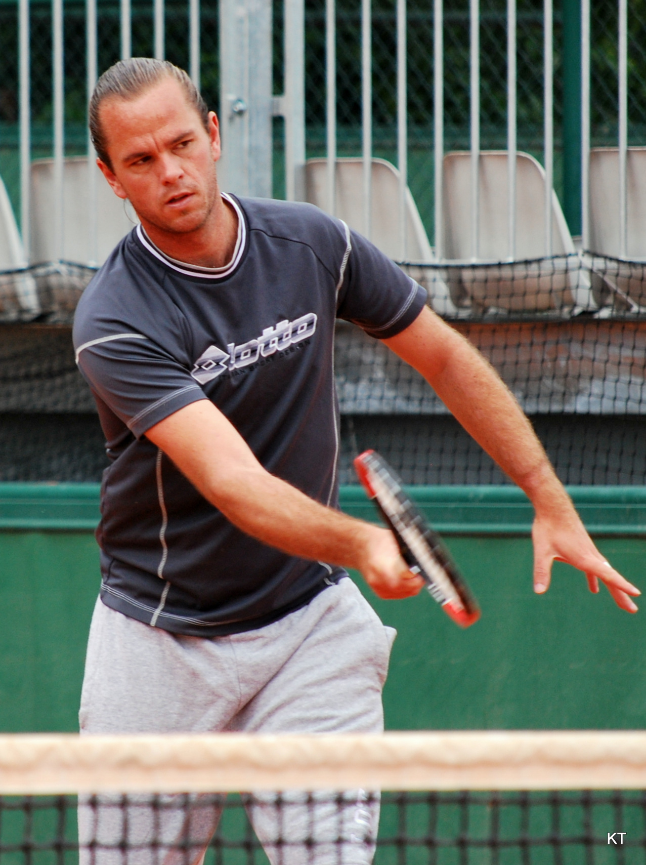 On the practice court. Day 5 of Roland Garros 2012.